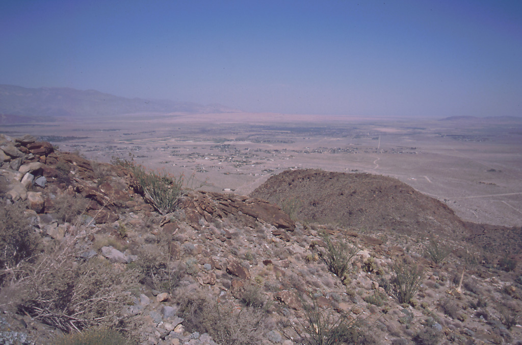 A view on the town of Borrego Springs, CA from the Montezuma Valley Road, April 2004. Photographer: Sascha Moll, Hamburg/Germany